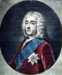 Philip Stanhope, 4th Earl of Chesterfield (1694-1773).